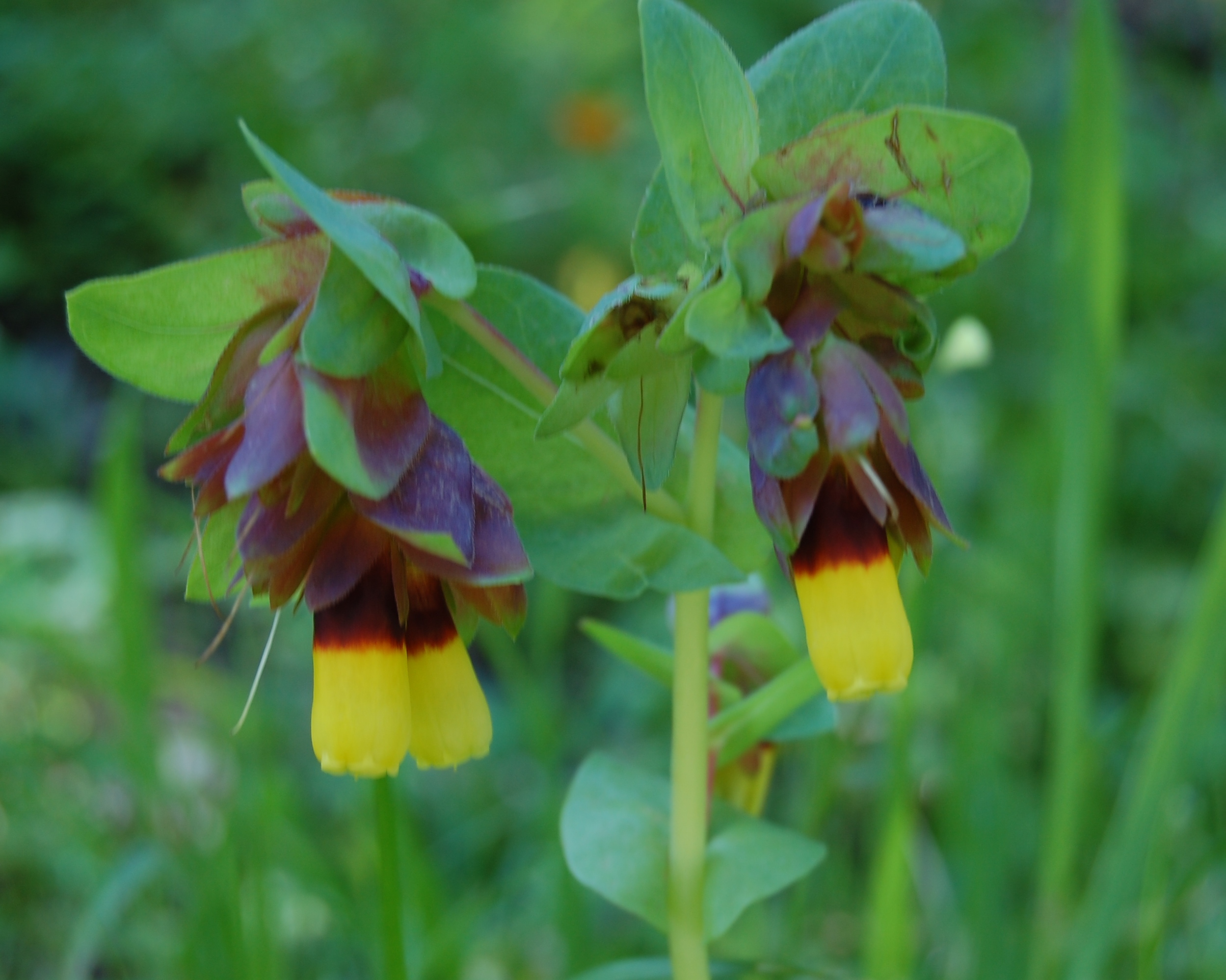 Cerinthe major L. 1753